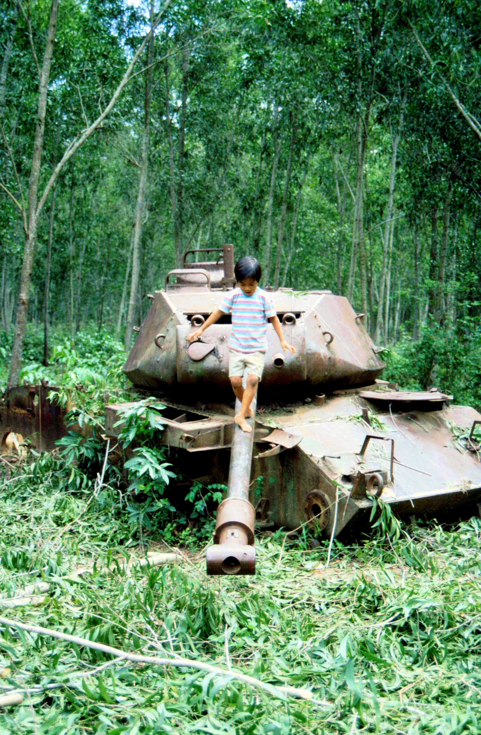 A child in Cambodia uses a tank (believed to be an M41 Walker Bulldog) as a climbing frame.